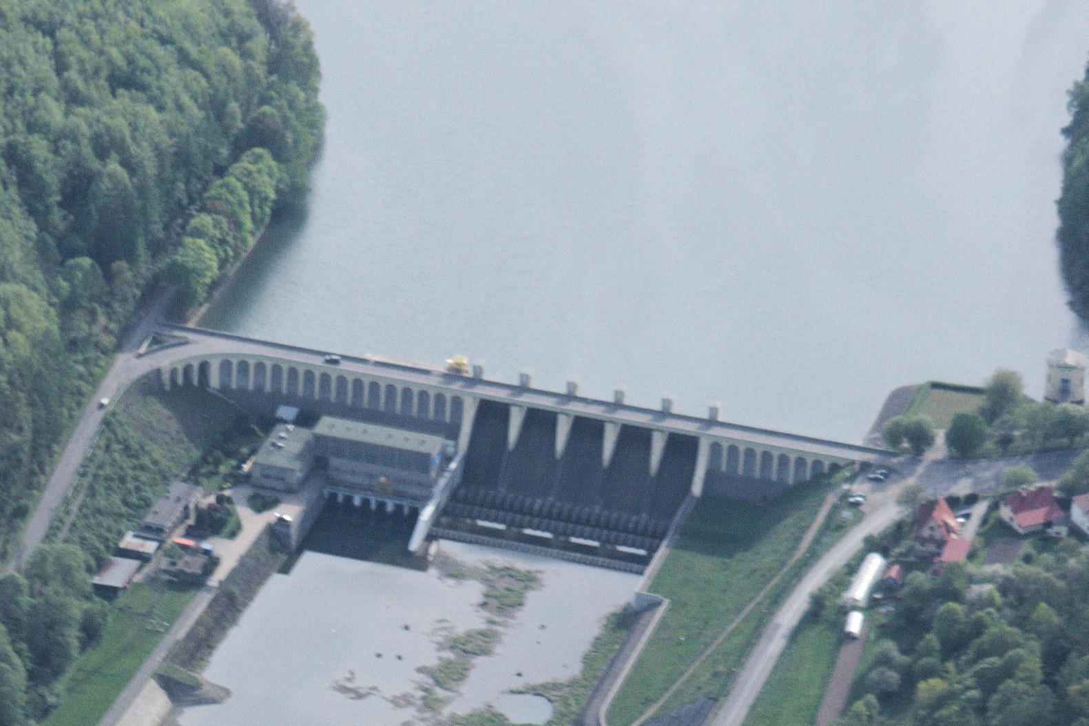 Porąbka Dam aerial photo